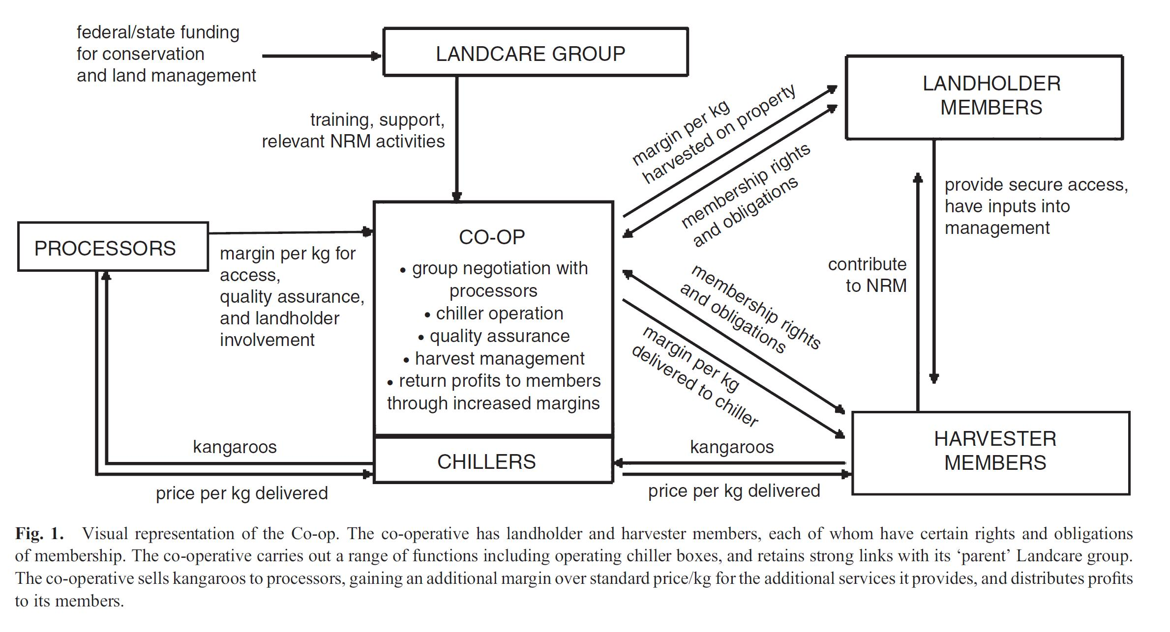 Kangaroo Harvesters and Growers Cooperative Diagram